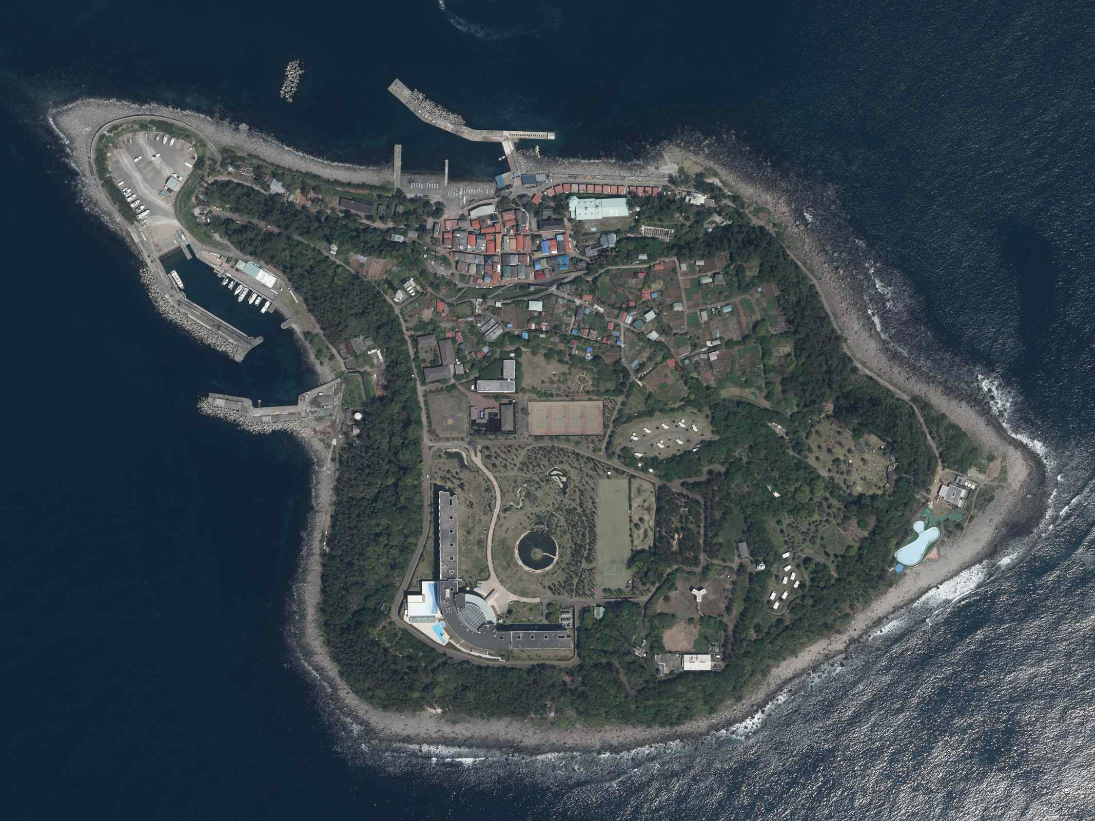 Aerial view of Hatsushima in Atami, Shizuoka Prefecture, Japan. This is a retouched picture, which means that it has been digitally altered from its original version. Modifications: Cropping & Color adjustment. Modifications made by Batholith.